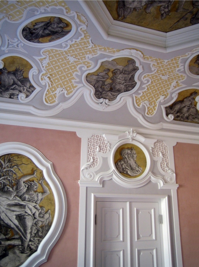 Bode Museum Native nameBode-MuseumParent institutionBerlin State MuseumsLocationBerlinCoordinates52° 31′ 19″ N, 13° 23′ 41″ E Established1904Web page control : Q157825 VIAF: 104146937731213830769 ISNI: 0000 0001 2348 0535 LCCN: nr2007002827 OSM: 2186879 GND: 5044715-4 WorldCat institution QS:P195,Q157825 The so called "Tiepolo-Kabinett", a small room with paintings made by Giovanni Battista Tiepolo. Detail.